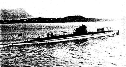 French sumbarine Laplace, of the Lagrange class, after 1922-1923 refit.